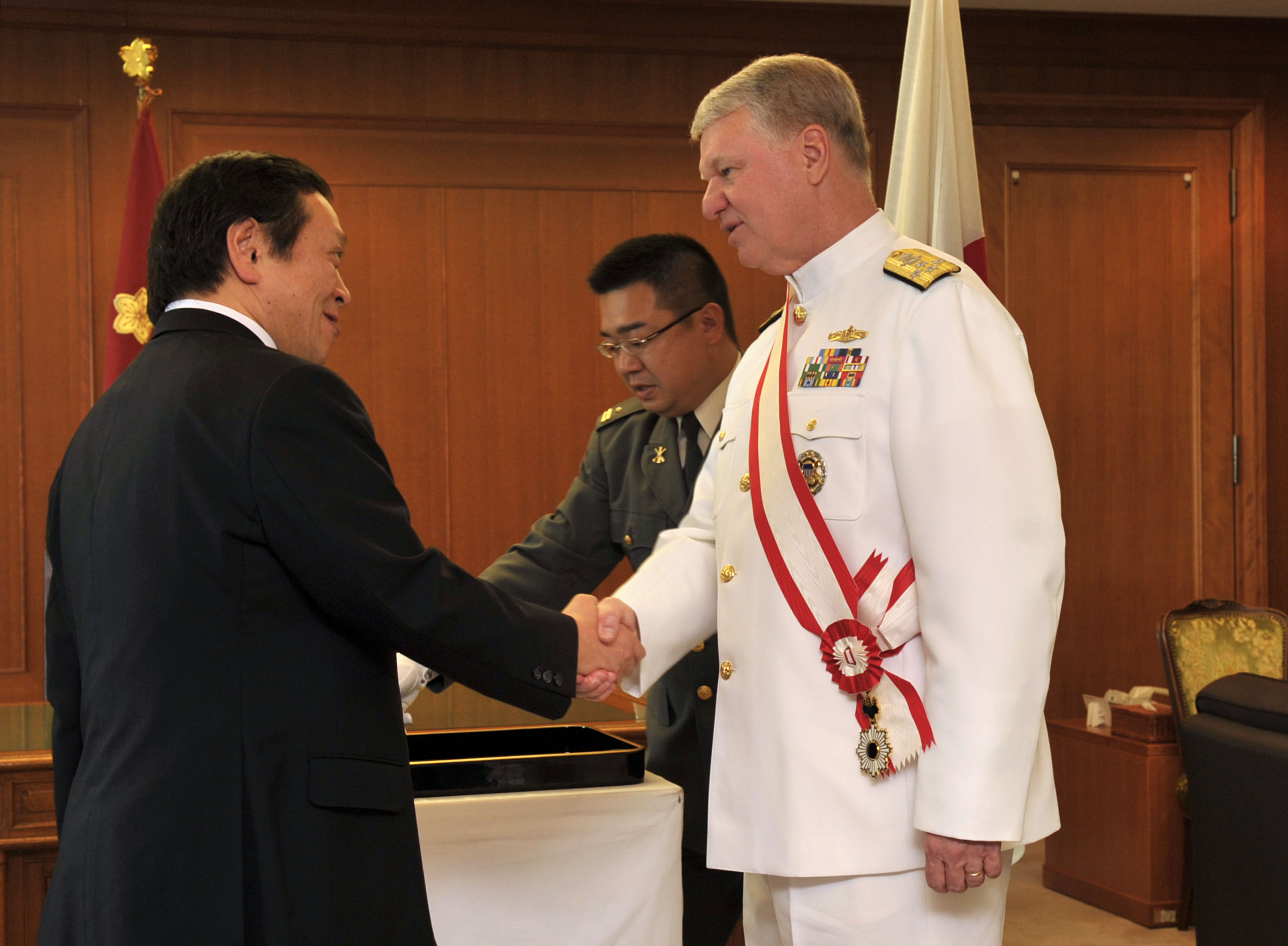 TOKYO (July 3, 2009) Japan Defense Minister Yasukazu Hamada, left, congratulates Chief of Naval Operations (CNO) Gary Roughead after Roughead was presented with the Grand Cordon of the Rising Sun award, one of Japan's highest honors, while visiting Tokyo. Roughead is visiting U.S. Navy and partner nation commands in the U.S. 7th Fleet area of responsibility to strengthen global maritime partnerships. (U.S. Navy photo by Mass Communication Specialist 1st Class Tiffini Jones Vanderwyst/Released)